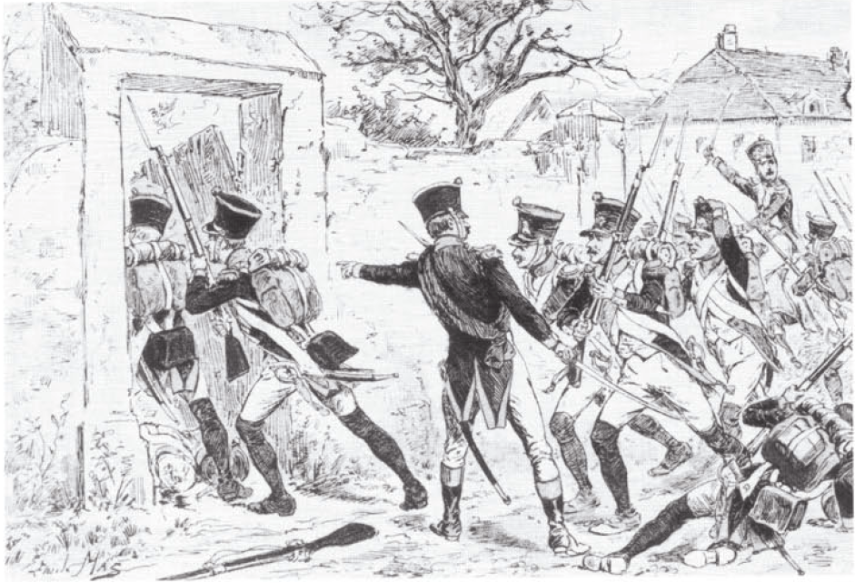 The 4th Line Regiment of Carra Saint-Cyr's division of Marshal Massena's IV Corps storm the village of Aderklaa, a strategic position in the Austrian centre, during the second day of the battle of Wagram. Engraving held at the Musee de l'Armee in Paris.